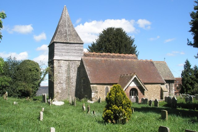 St Peter's parish church, West Liss, Hampshire, seen from the south